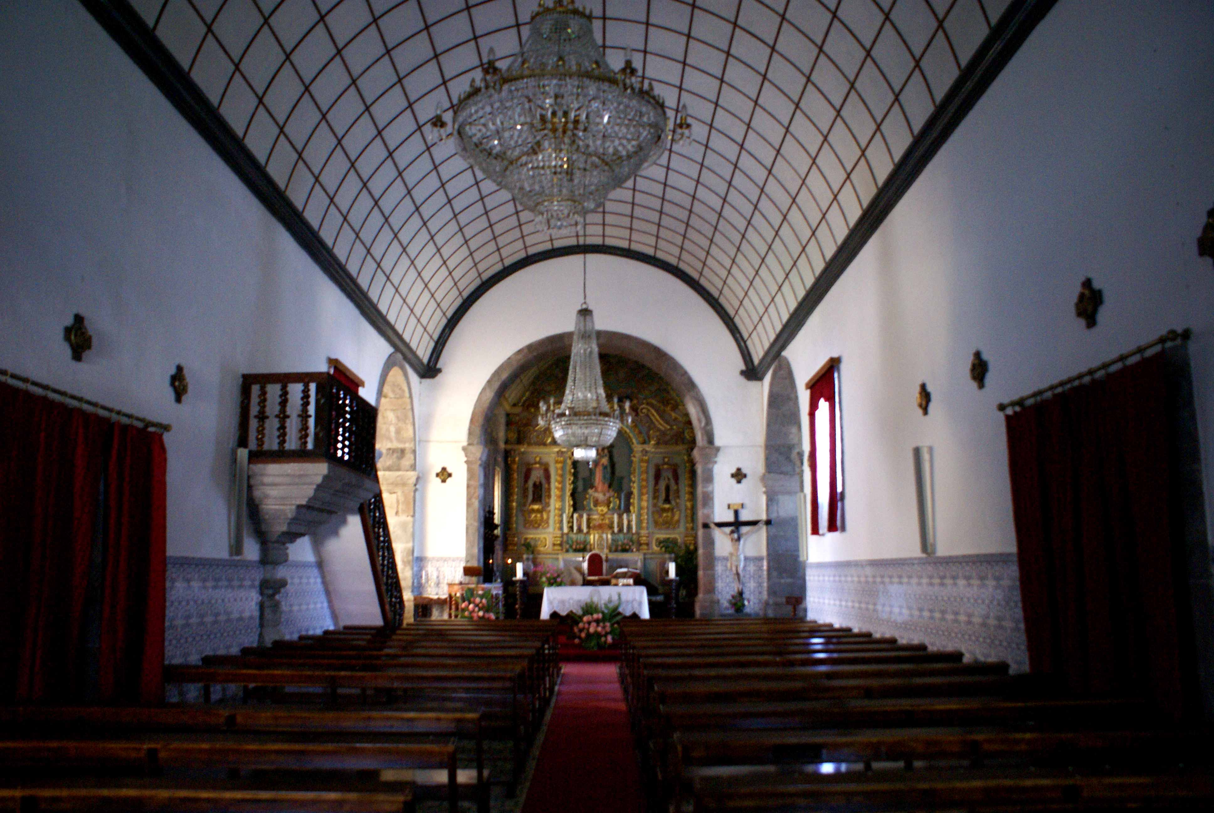 Nave of the Church of Nossa Senhora das Neves, Norte Grande, Velas, São Jorge (Azores), Portugal